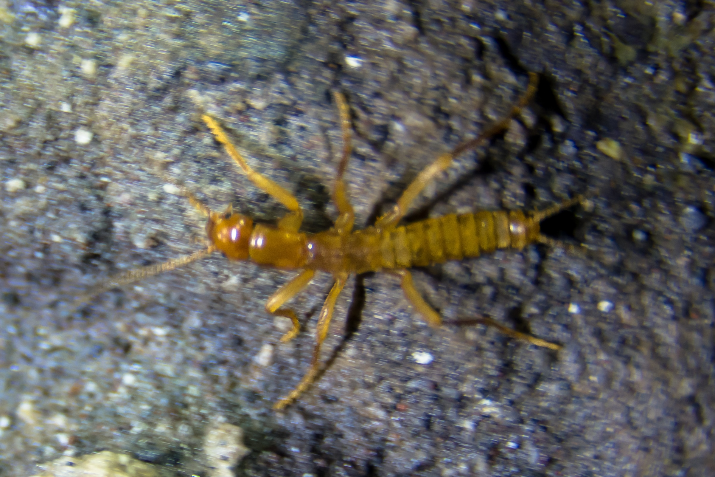 Grylloblatta chirurgica Gurney, 1961 (also called Mt. St. Helens Grylloblatid). (non-positive ID, based on found location (Ape Cave) and general appearance). Other very similar looking sub-species is Grylloblatta siskiyouensis (documented in caves in Oregon). Grylloblatids (sometimes described as cockroach-cricket and also known as Ice-walkers or Rock-crawlers), spend most of their time in caves, or other dark cool places. In Mt. St. Helen's Ape Cave (lava tube), one of their food sources are fungus fly larvae. The larvae eat the cave slime (algae-bacteria on the walls) and the grylloblatids eat the larvae. The grylloblatids are also known to come out of the caves in winter and early spring to feed on insects numbed by the cold. .